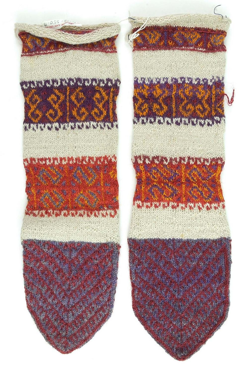 Collected by Josephine Powell .